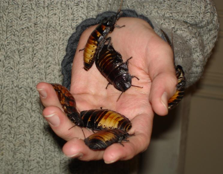 Madagascar hissing roaches having a stroll on Husond's hand.